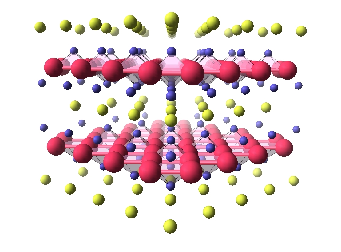 cristallographic structure of a pnictide BaFe_2As_2 (blue:As, red:Fe,yellow:Ba) which is a high temperature superconductor